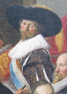 Pieter Ramp, detail of Officers of the St. Adrian Civic Guard, 1627, Haarlem This image is available from the Netherlands Institute for Art Historyunder digital ID 11012. This tag does not indicate the copyright status of the attached work. A normal copyright tag is still required. See Commons:Licensing.